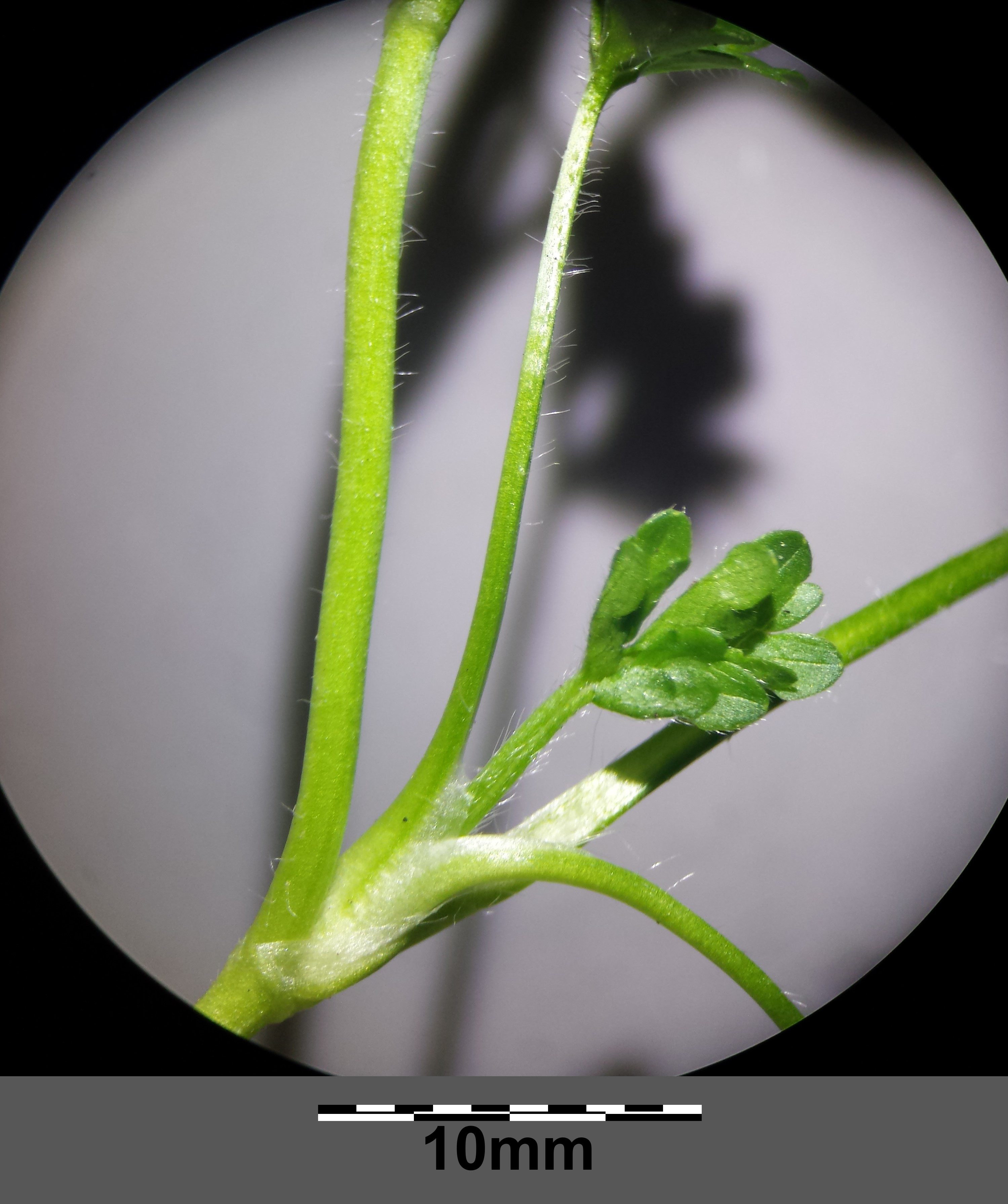 Pubescent stem with leaves Taxonym: Ranunculus sardous subsp. sardous ss Fischer et al. EfÖLS 2008 ISBN 978-3-85474-187-9 Location: Jedleseer Friedhof, Vienna-Floridsdorf - ca. 160 m a.s.l. Habitat: grave